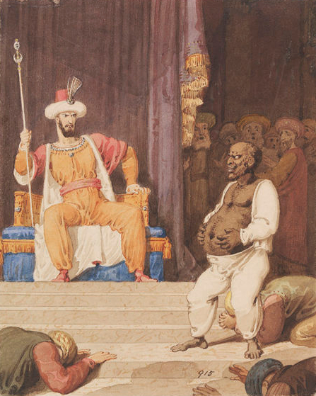 Caliph and Giaour, an illustration to William Beckford's Vathek. Late 18th - early 19th century (painted).